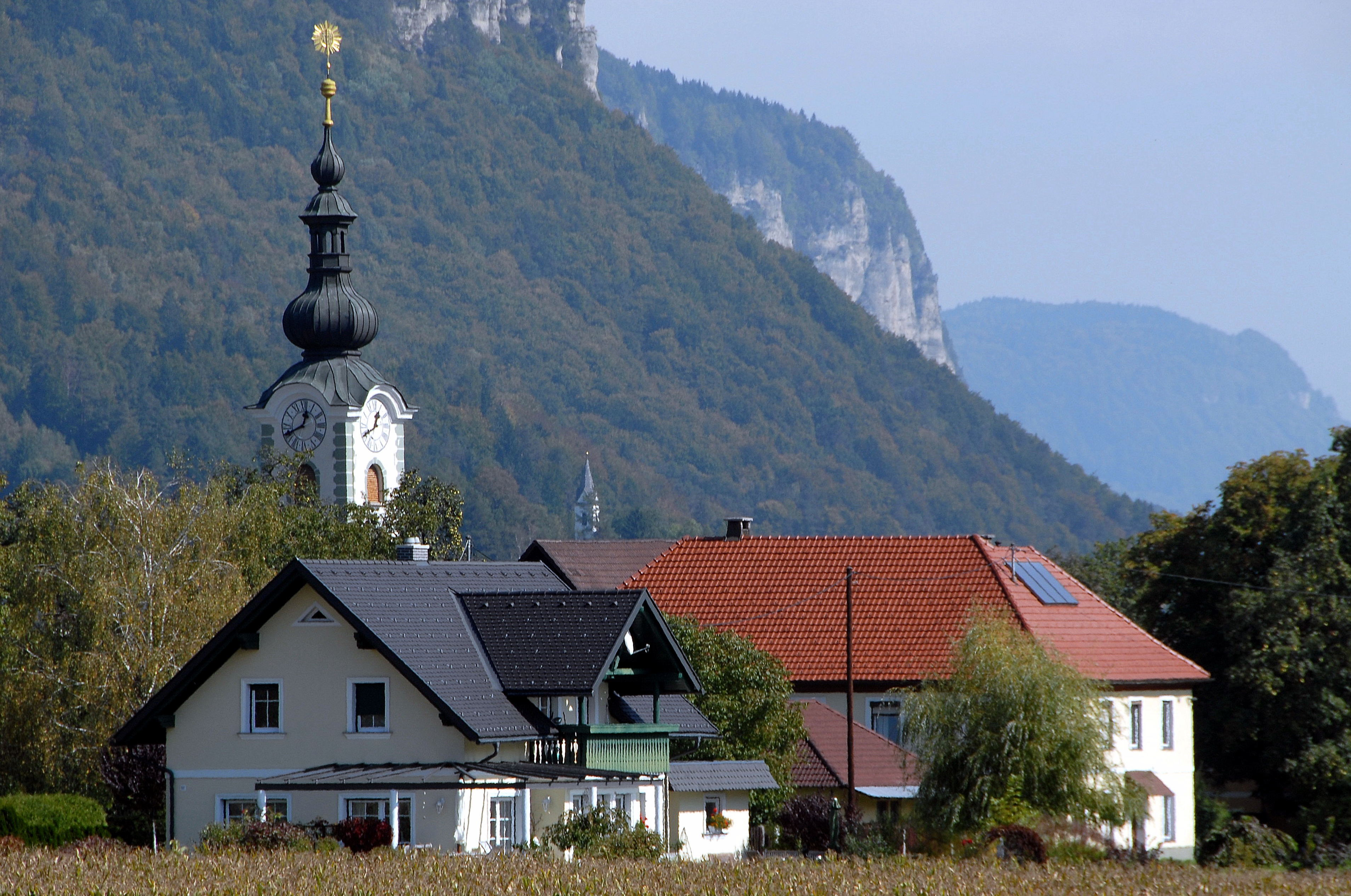 Village Glainach in the muicipality Ferlach, district Klagenfurt-Land, Carinthia, Austria